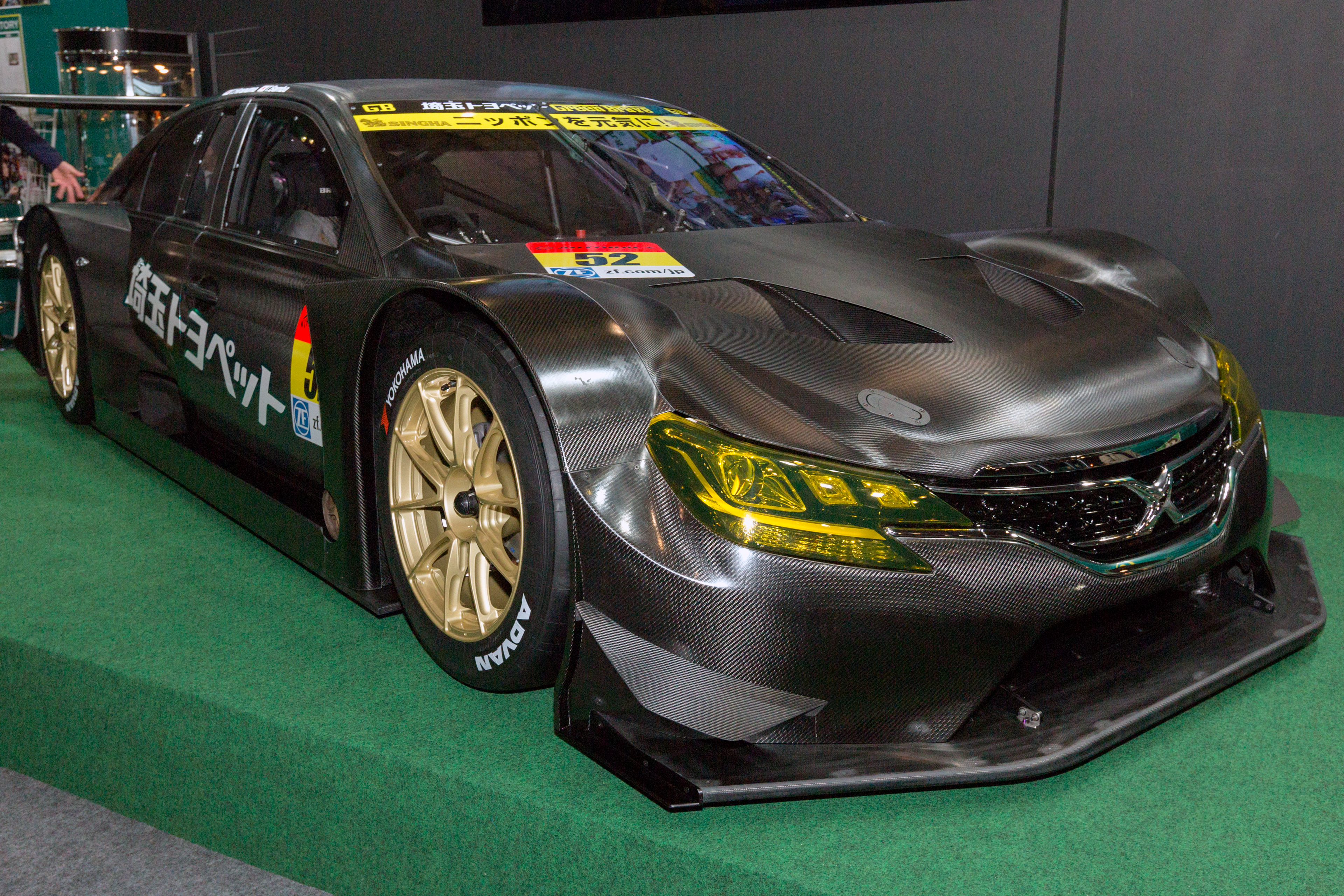 Tokyo Auto Salon 2017: Toyota Mark X GT300